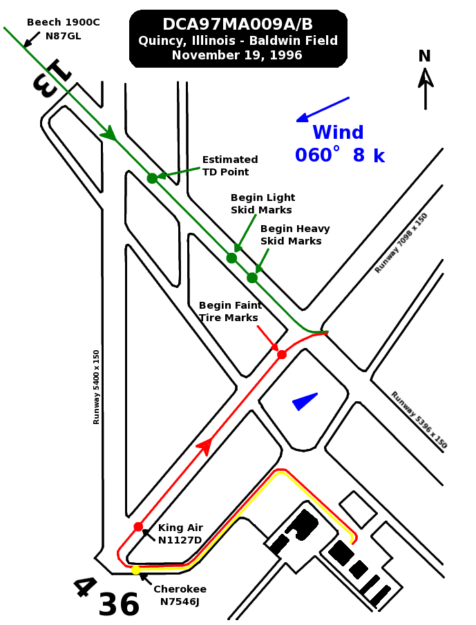 Diagram of accident aircraft in Quincy, Illinois in 1996.